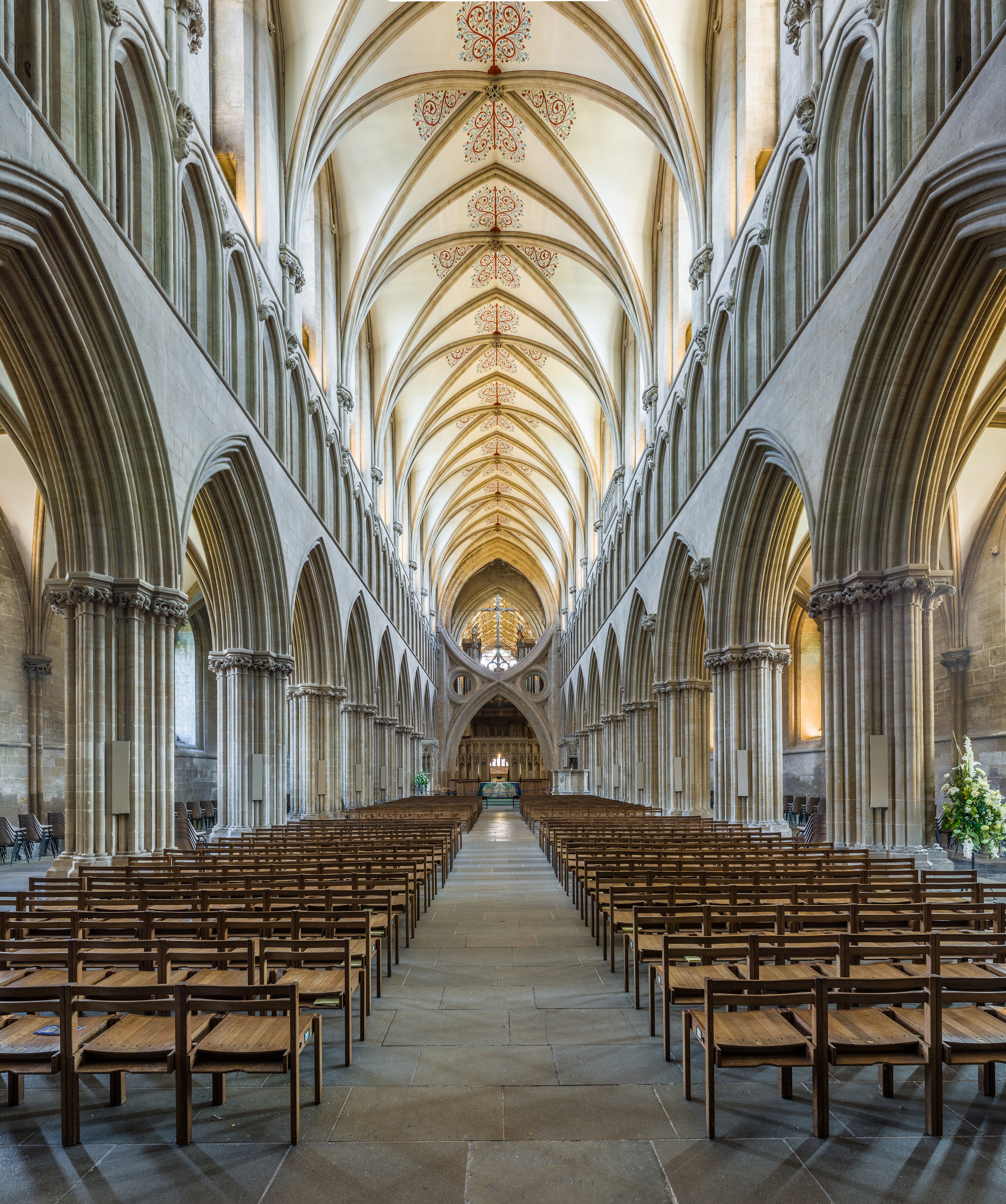 Wells Cathedral's nave, viewed from the entrance, in Somerset, England.